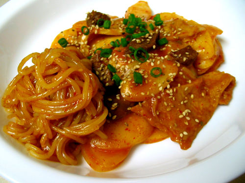 Tteokbokki with sticky noodle